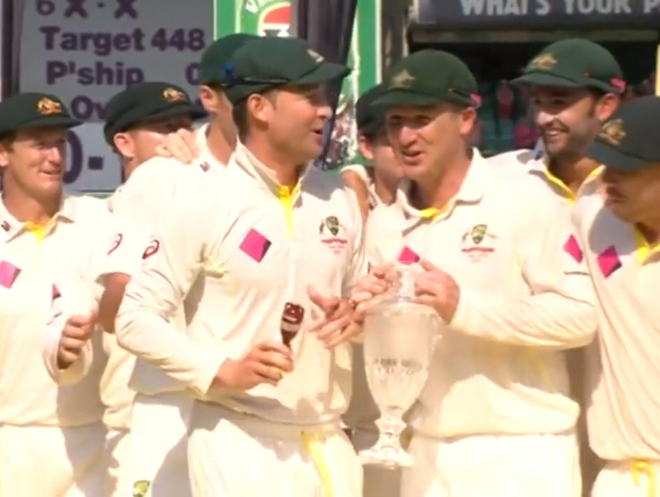 The Ashes 2013-14 Presentation. Sydney, 5 Jan 2014